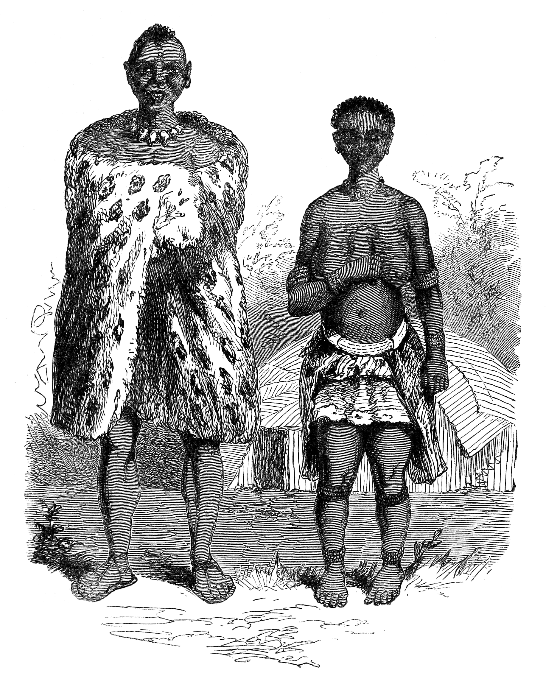 Bayeye people; illustration from p.481 of the 1861 book Lake Ngami.